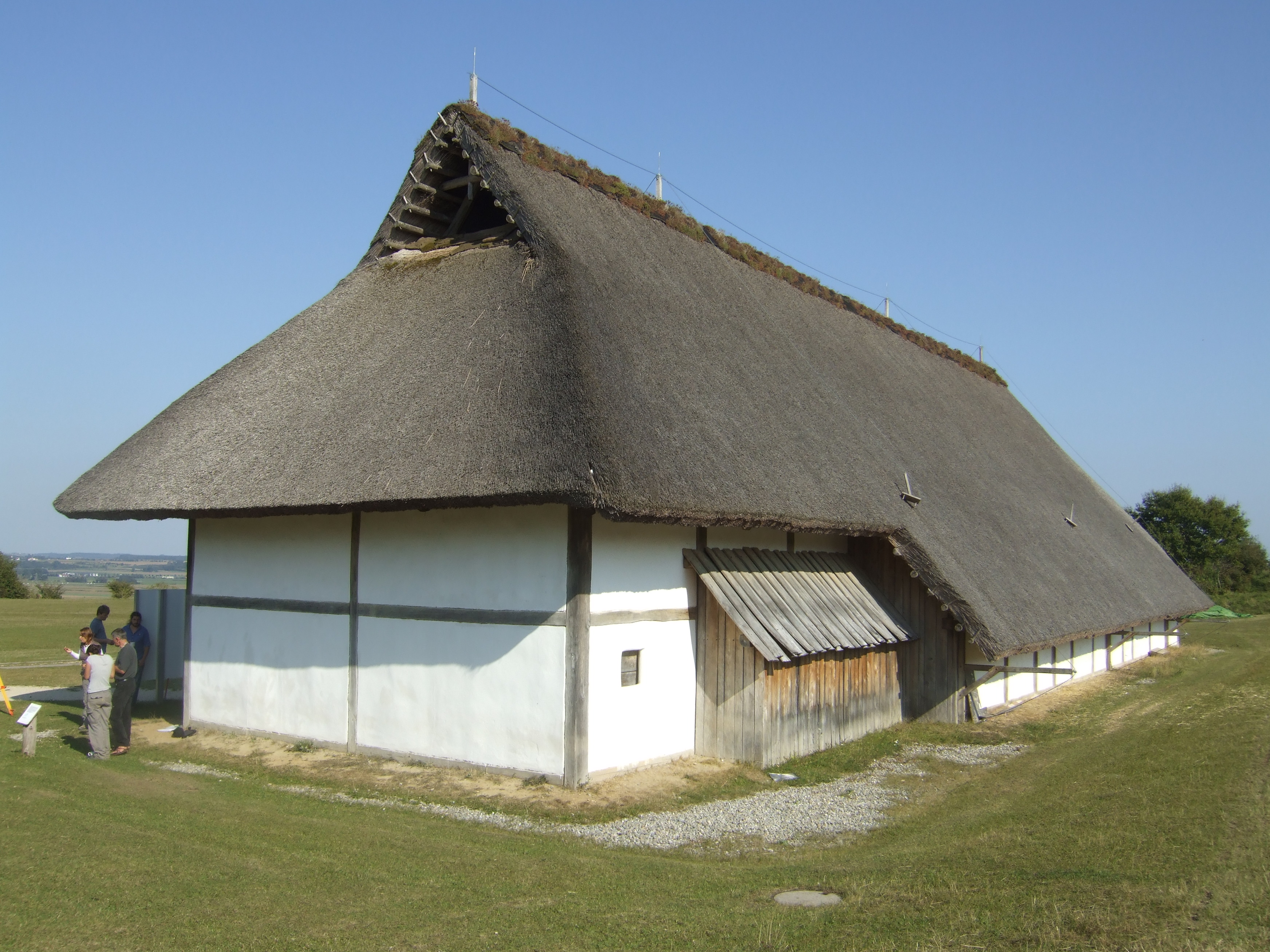 Heuneburg Open-air Museum (reconstructed major manorial building)